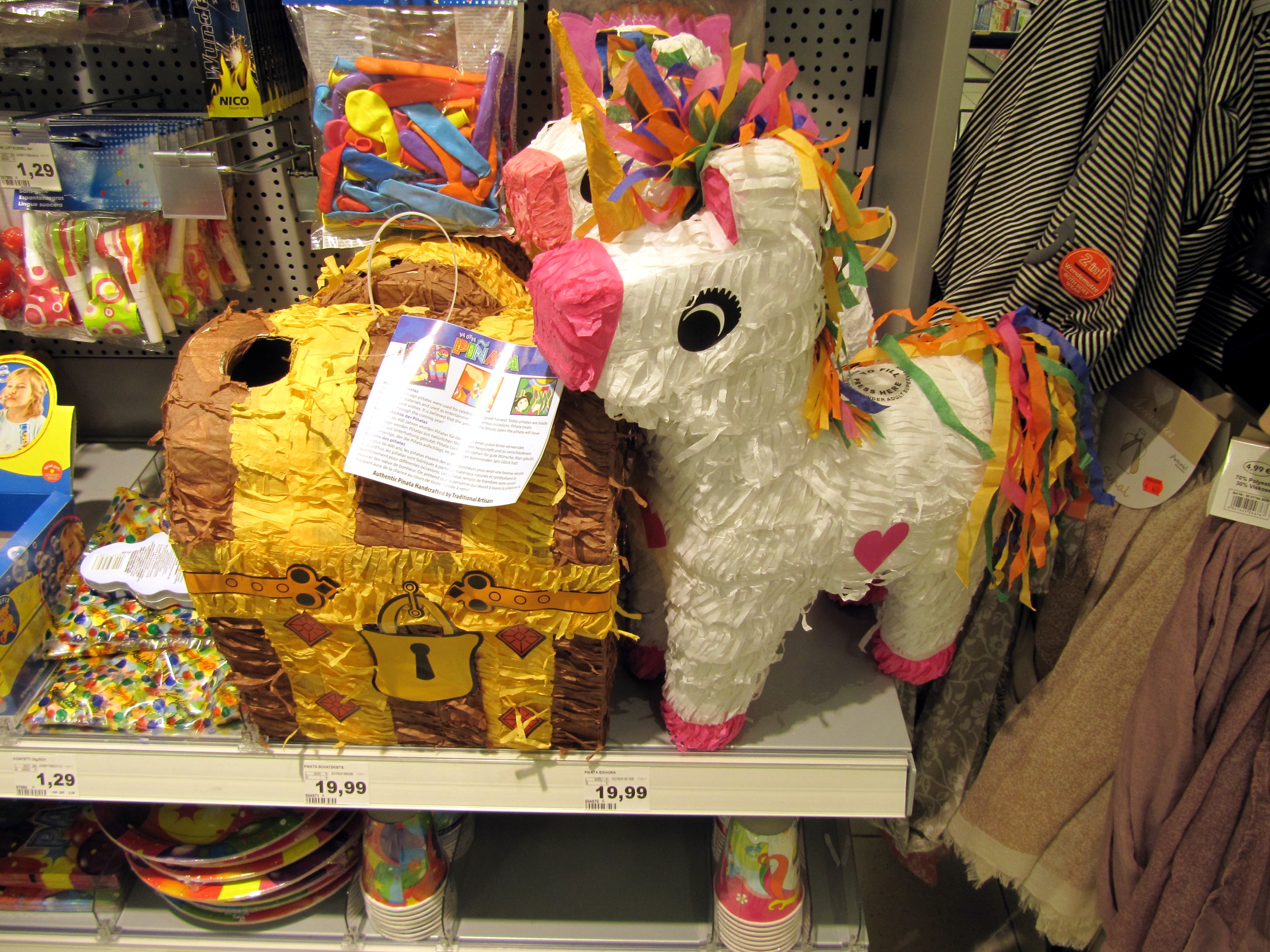 Piñatas in a drug store in Hamburg, Germany (2017).